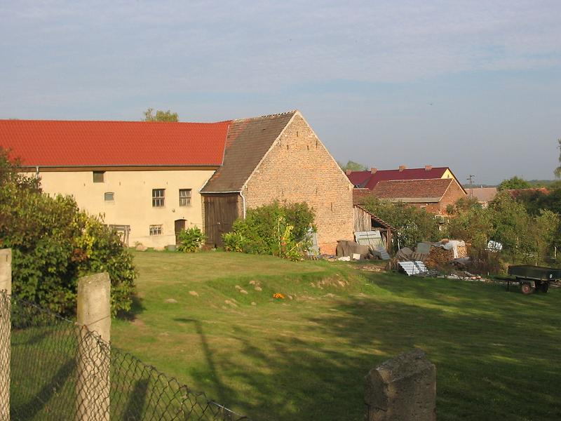 Courtyard in Hagelberg. The village Hagelberg is a part of the town Belzig in the district Potsdam Mittelmark, state Brandenburg, Germany. The village appertains to the nature park Naturpark Hoher Fläming. The eponymous Hagelberg (hill) is with a height of total 200 meters the highest elevation in the Fläming.